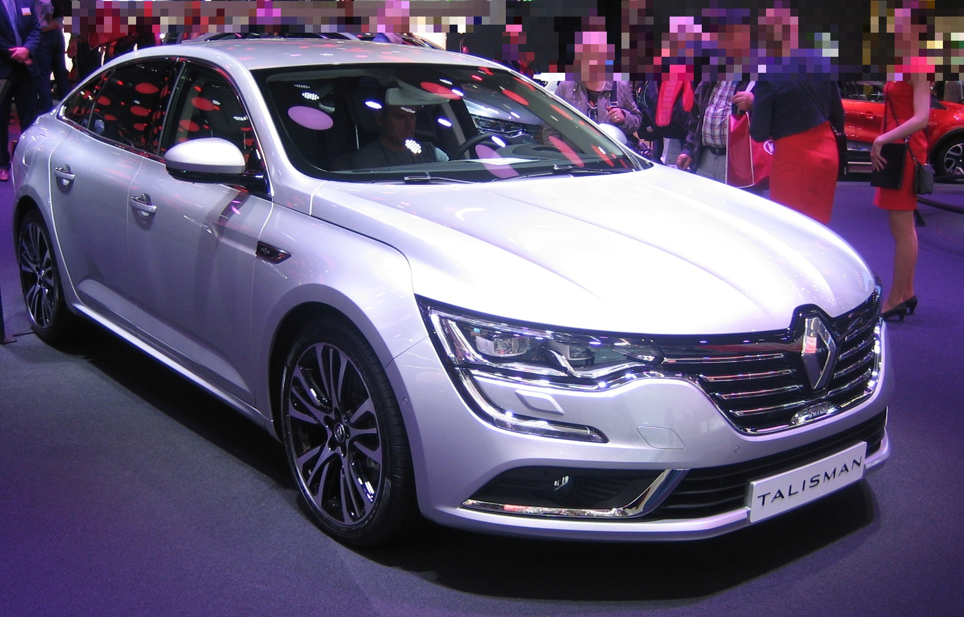 Renault Talisman on the International Motor Show 2015 in Frankfurt am Main, Germany